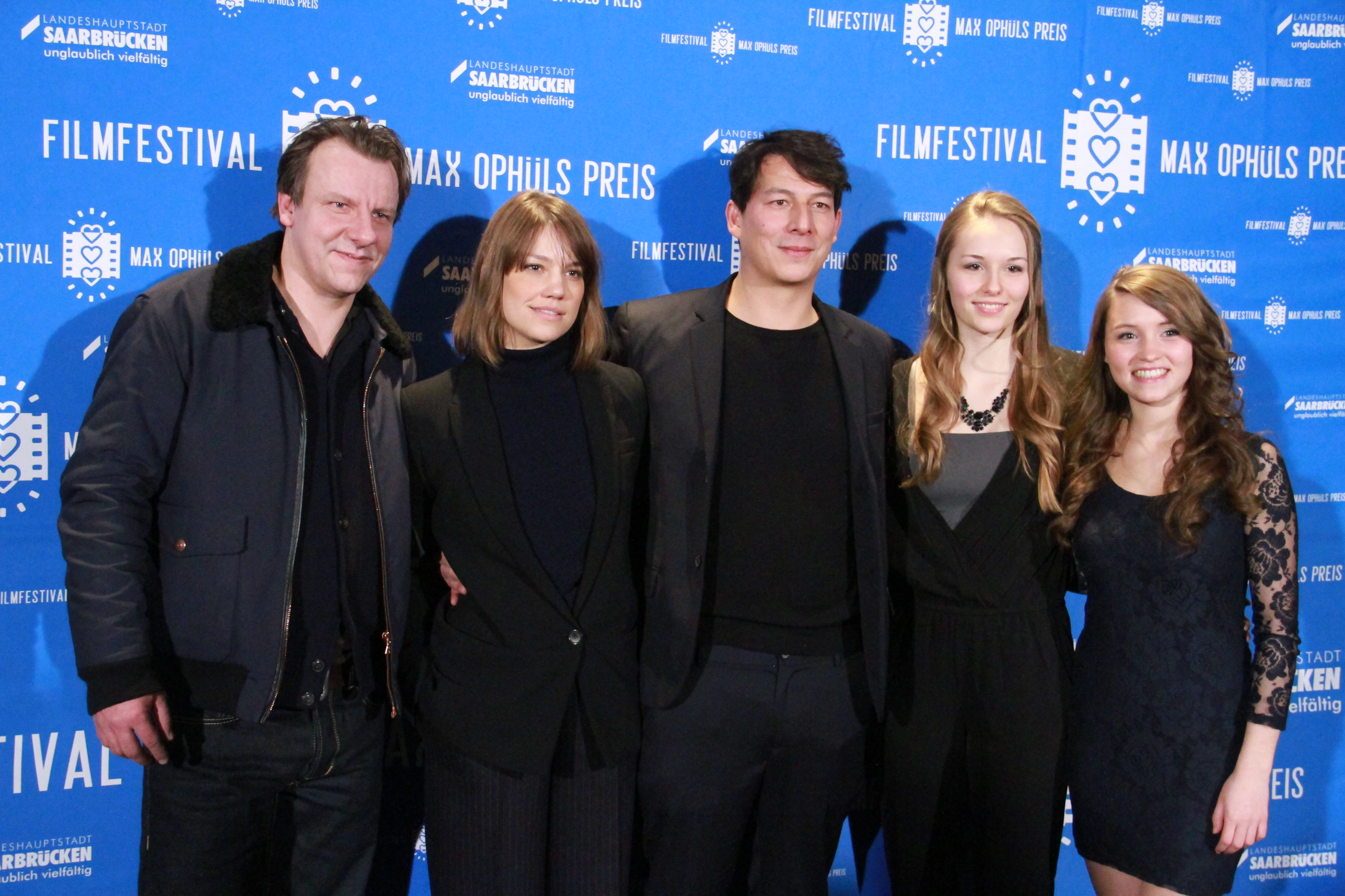 Some main cast and director of "Wir Monster" at the Max-Ophüls-Filmfestival 2015 (f.l.t.r. Ronald Kukulies, Britta Hammelstein, Sebastian Ko, Marie Bendig, Janina Fautz)